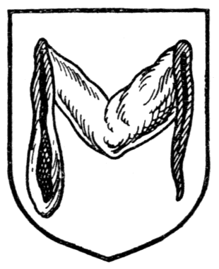 Fig. 539.—Maunch.